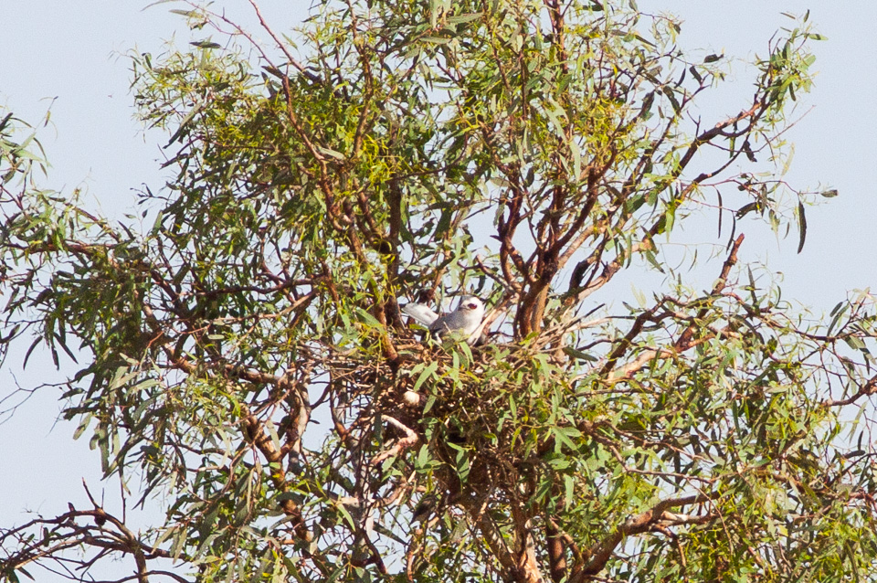 Letter-winged Kite on a nest in foliage, upper canopy of eucalypt, Birdsville Track, South Australia